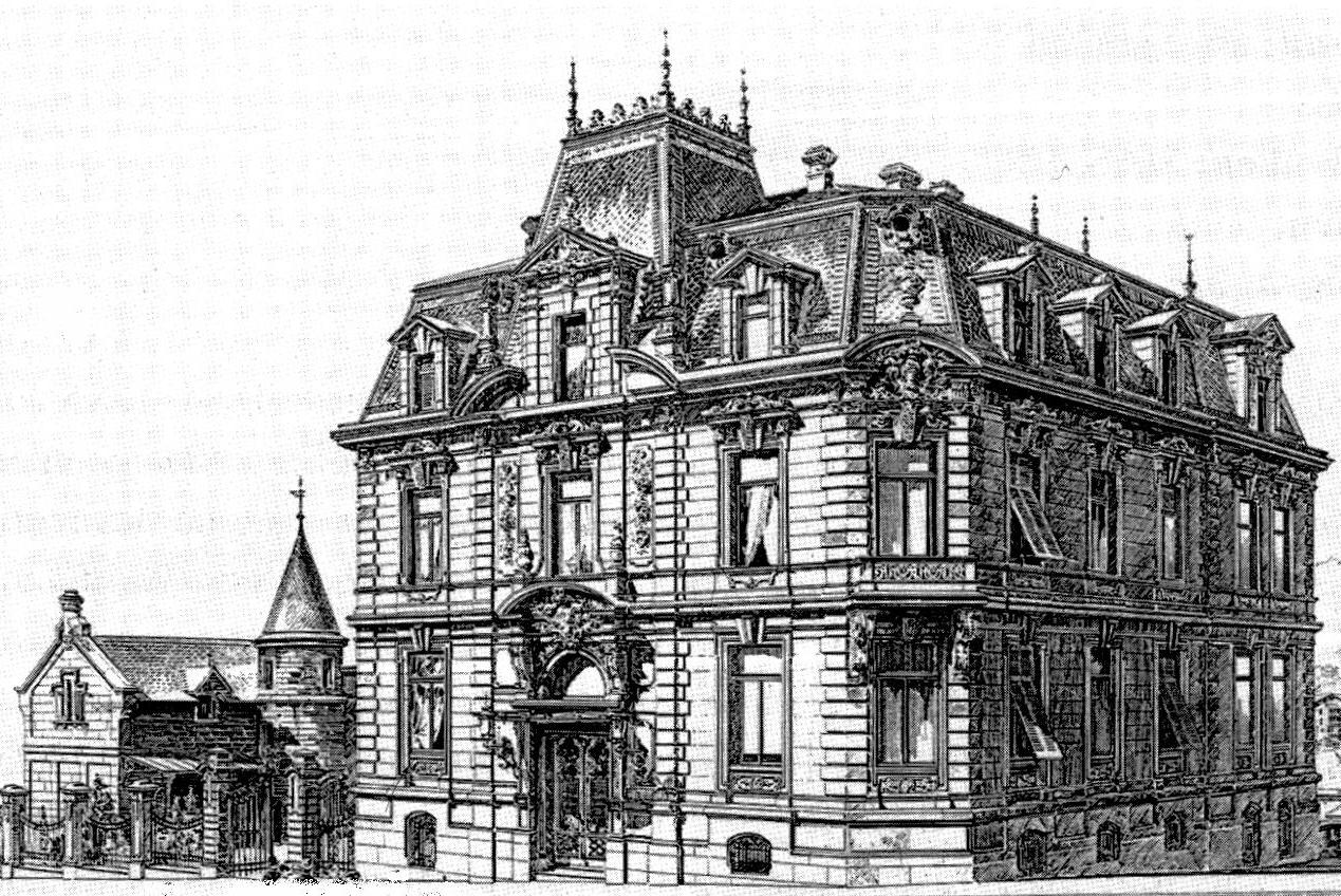 Villa Kienlin Mörikestr. 7-9 Stuttgart, Architekten Eisenlohr und Weigle Ansicht von 1894